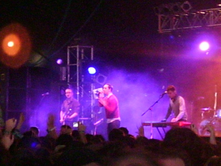 Maxïmo Park (Duncan Lloyd, Paul Smith, Lukas Wooller) at the Leeds Festival, England, in 2005